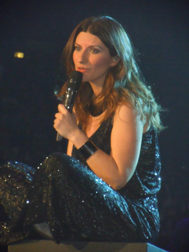 Inedito World Tour 2011-2012 di Laura Pausini, 22-12-11, Mediolanum Forum, Milano